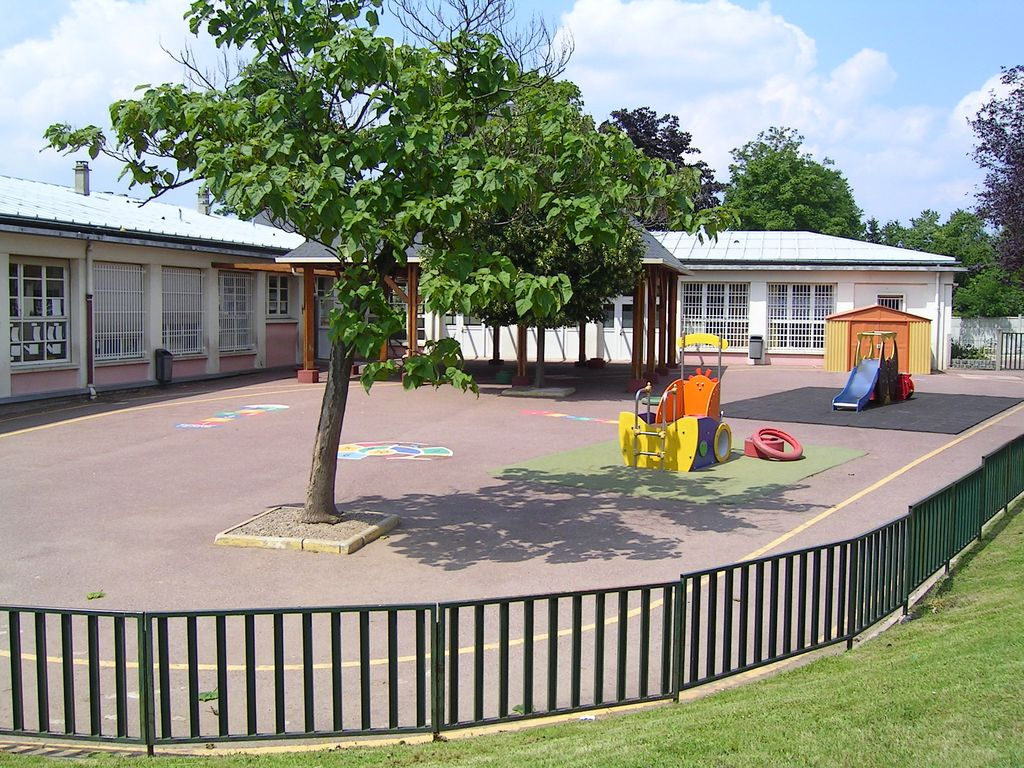 Ecole maternelle Benoît Malon, rue Benoît Malon Photo personnelle (own work) de Marianna